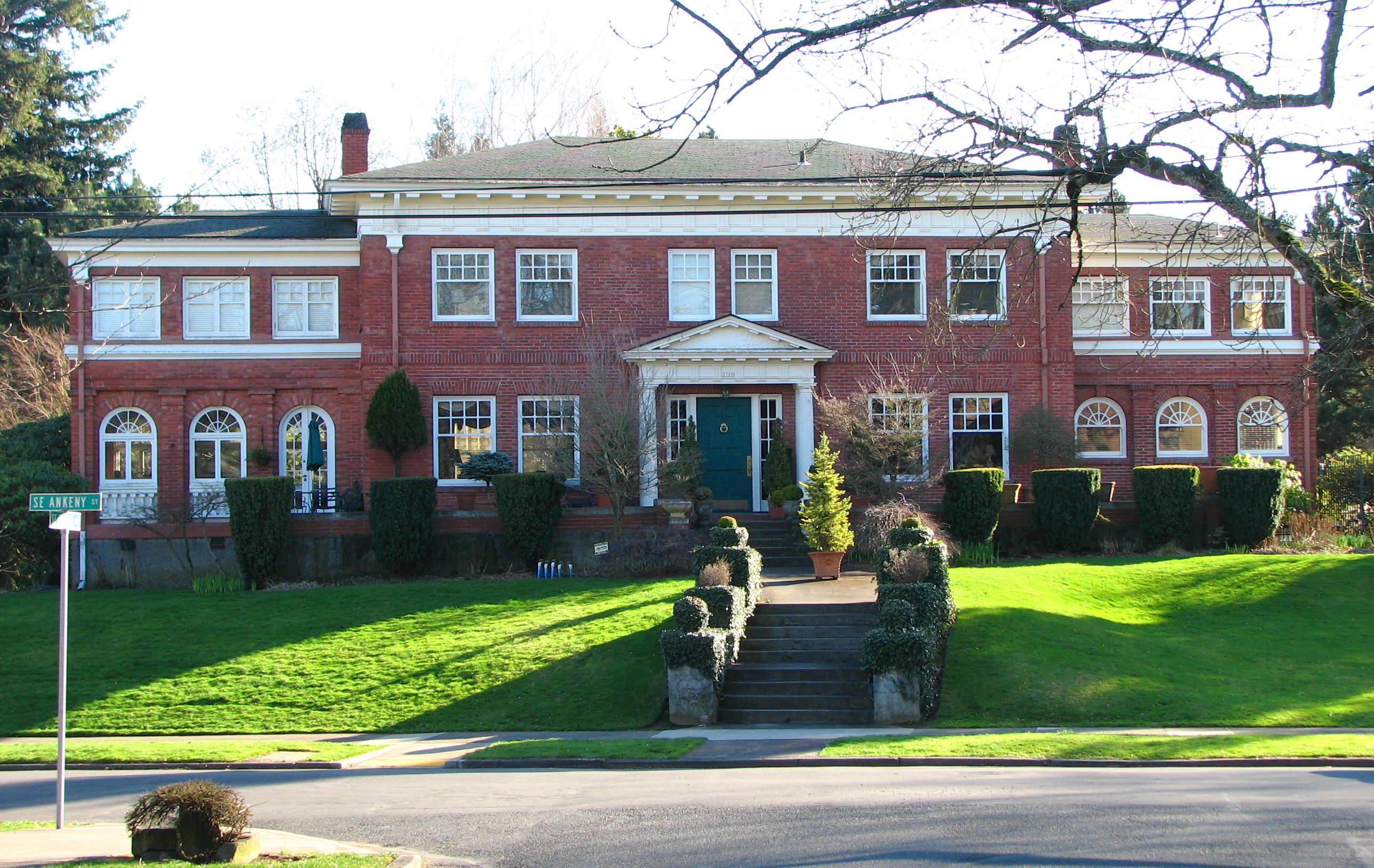 The historic H. Russell Albee House (built 1912), located at 3360 Southeast Ankeny Street in Portland, Oregon, United States, is listed on the US National Register of Historic Places (NRHP).